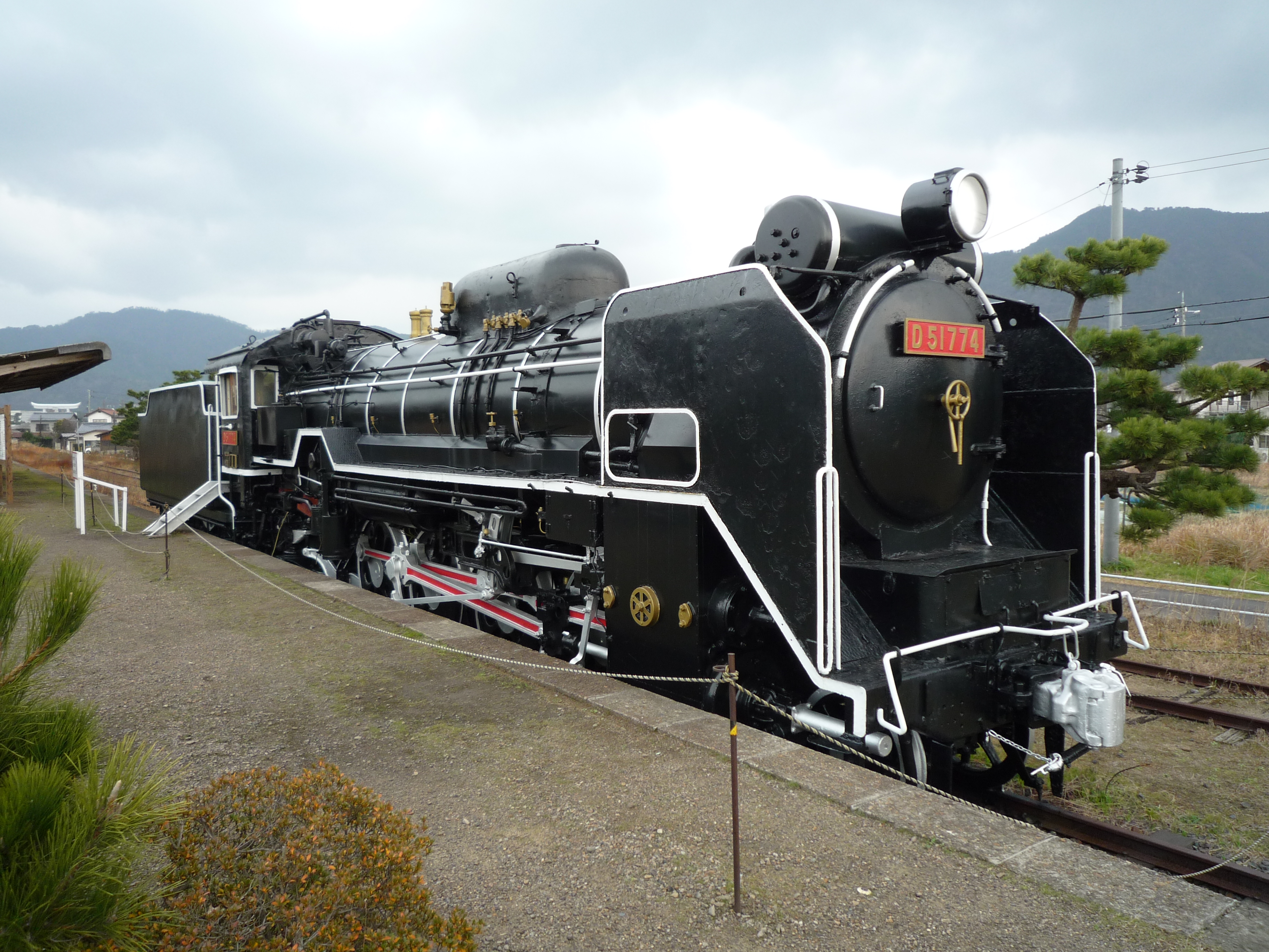 JNR Class D51 steam locomotive D51 774, preserved next to Taisha Staion in Izumo, Shimane Prefecture, Japan